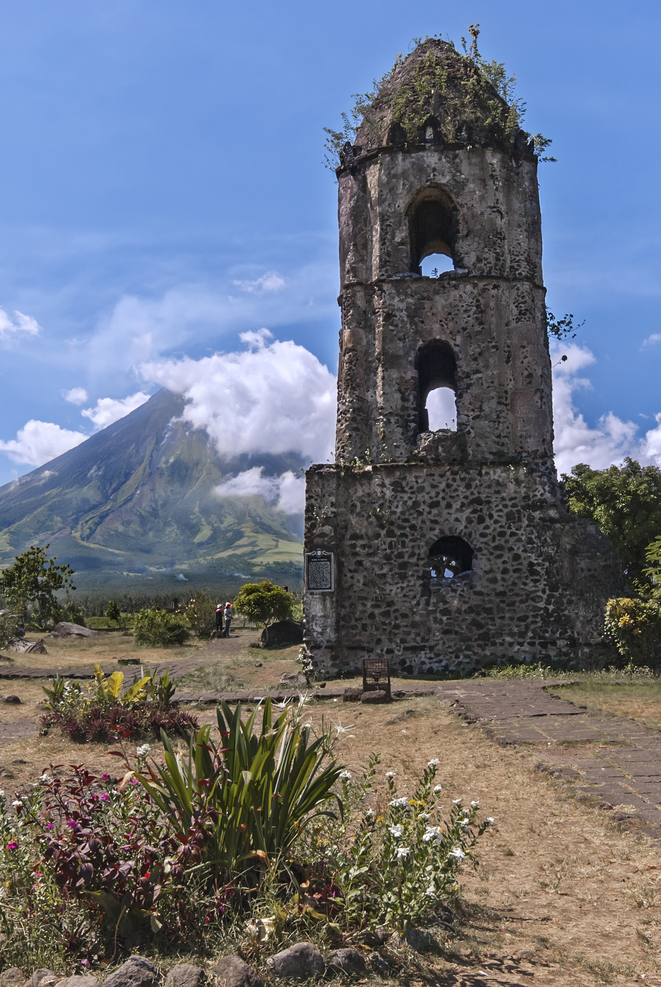 Cagsaua Ruins was a Franciscan Church which was destroyed when the Mayon Volcano errupted. Cagsaua Ruins can be found in Barangay Busay, Daraga, Albay, Philippines